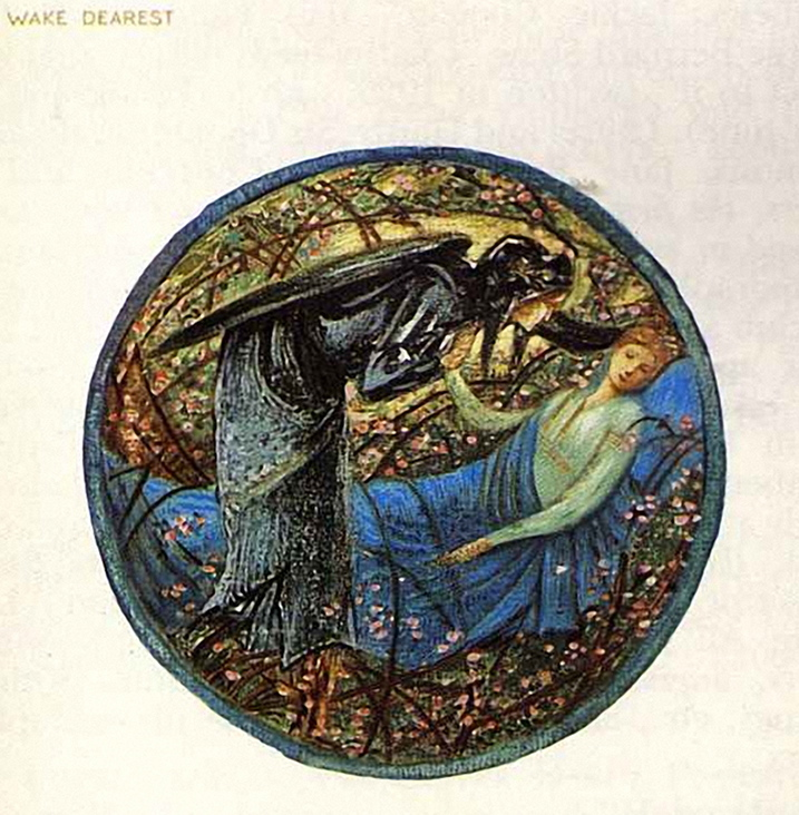 "Wake Dearest" a reproduction of a watercolor by Edward Burne-Jones (d. 1898) published posthumously (1905) by his wife in "The Book of Flowers" one of 38 images in the book. The images were faithfully reproduced by French printer Henri Piazza as collotypes with hand-stenciled watercolor additions in a technique called pochoir. The portrayals are often mistaken for original watercolors. 300 copies of The Flower Book were published, most as bound books, though a small number were produced as individually matted plates housed in a clamshell box. This is from the unbound "Book" in the Delaware Art Museum.